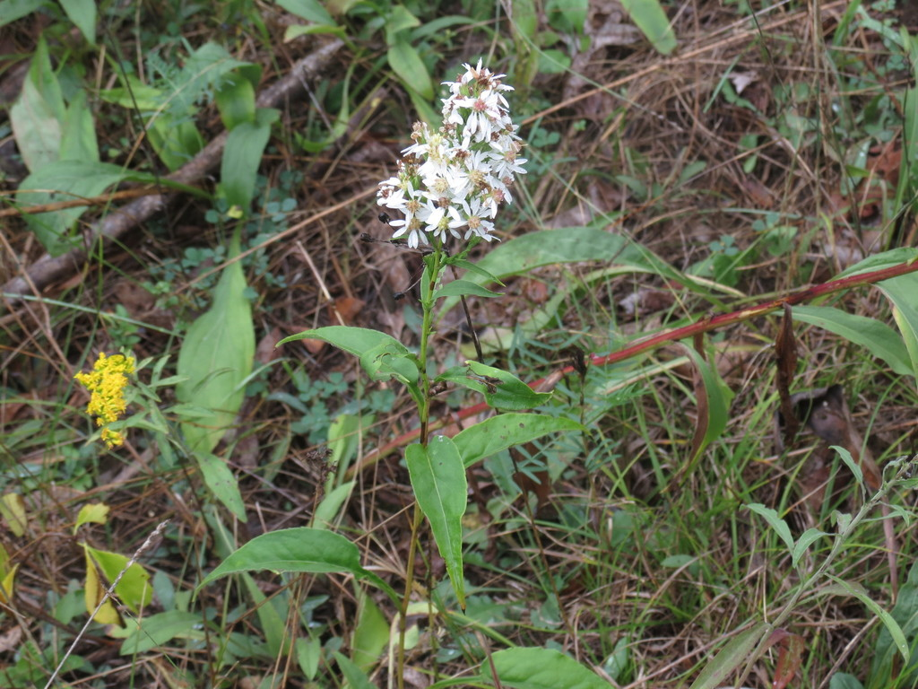 Symphyotrichum urophyllum (arrow-leaved aster), Mississauga, Ontario, Canada